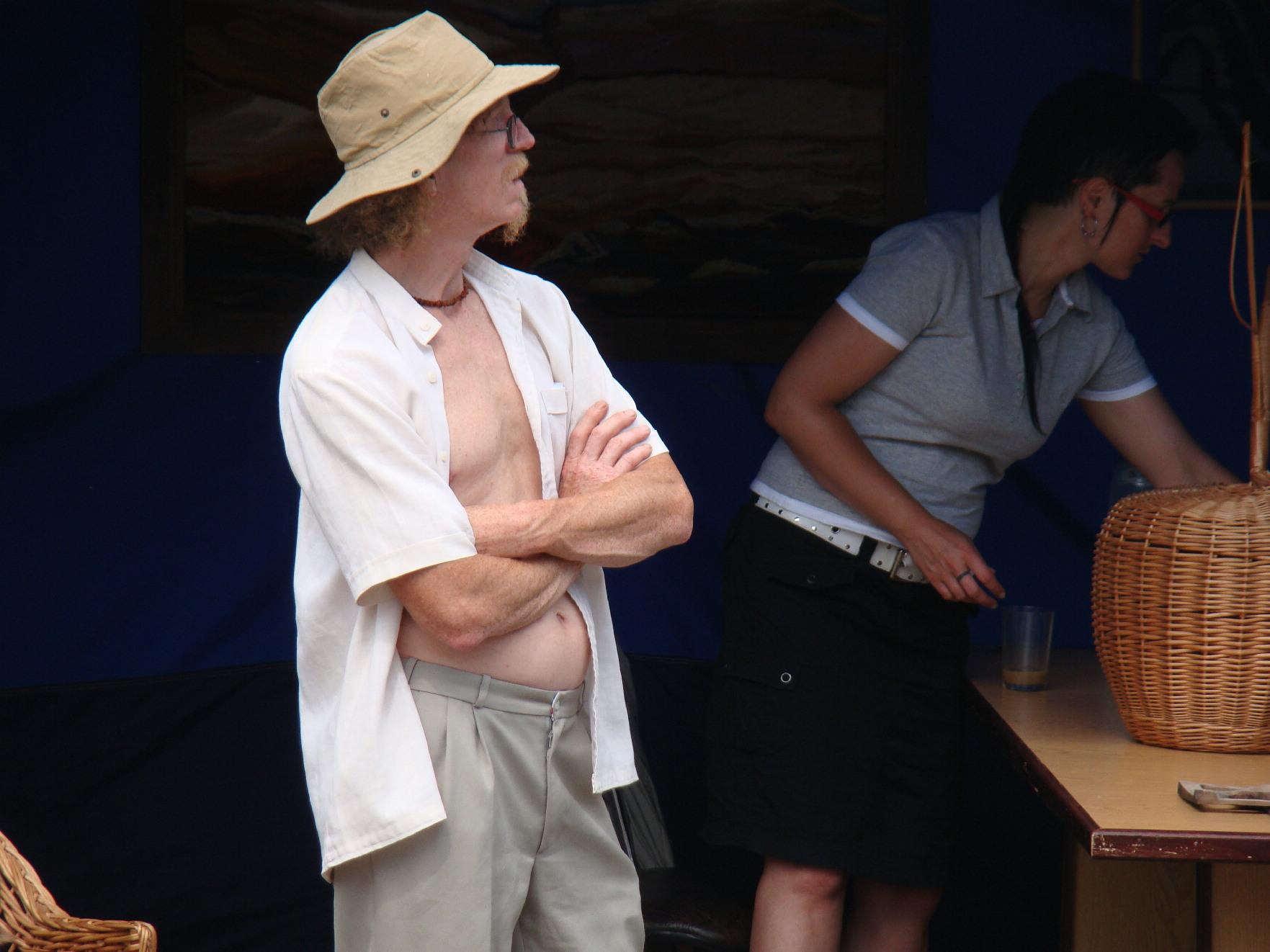 Piotr Woroniec, Bukowsko 2009